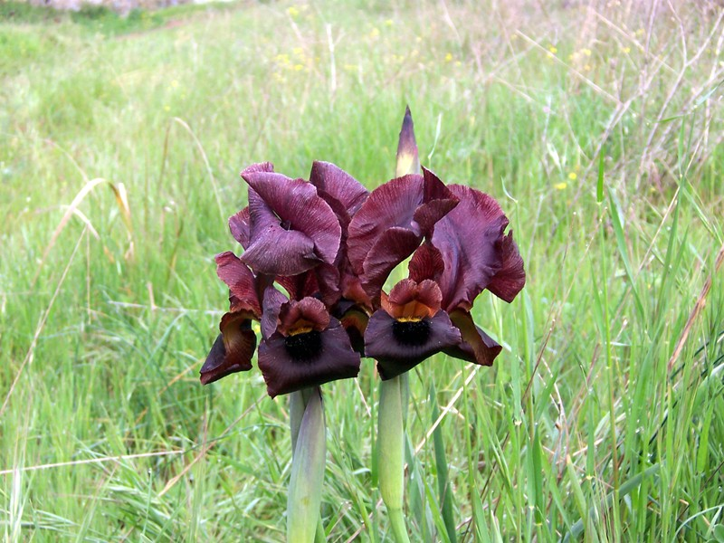 Iris atropurpurea in Kadima natural reserve, Plants of Israel